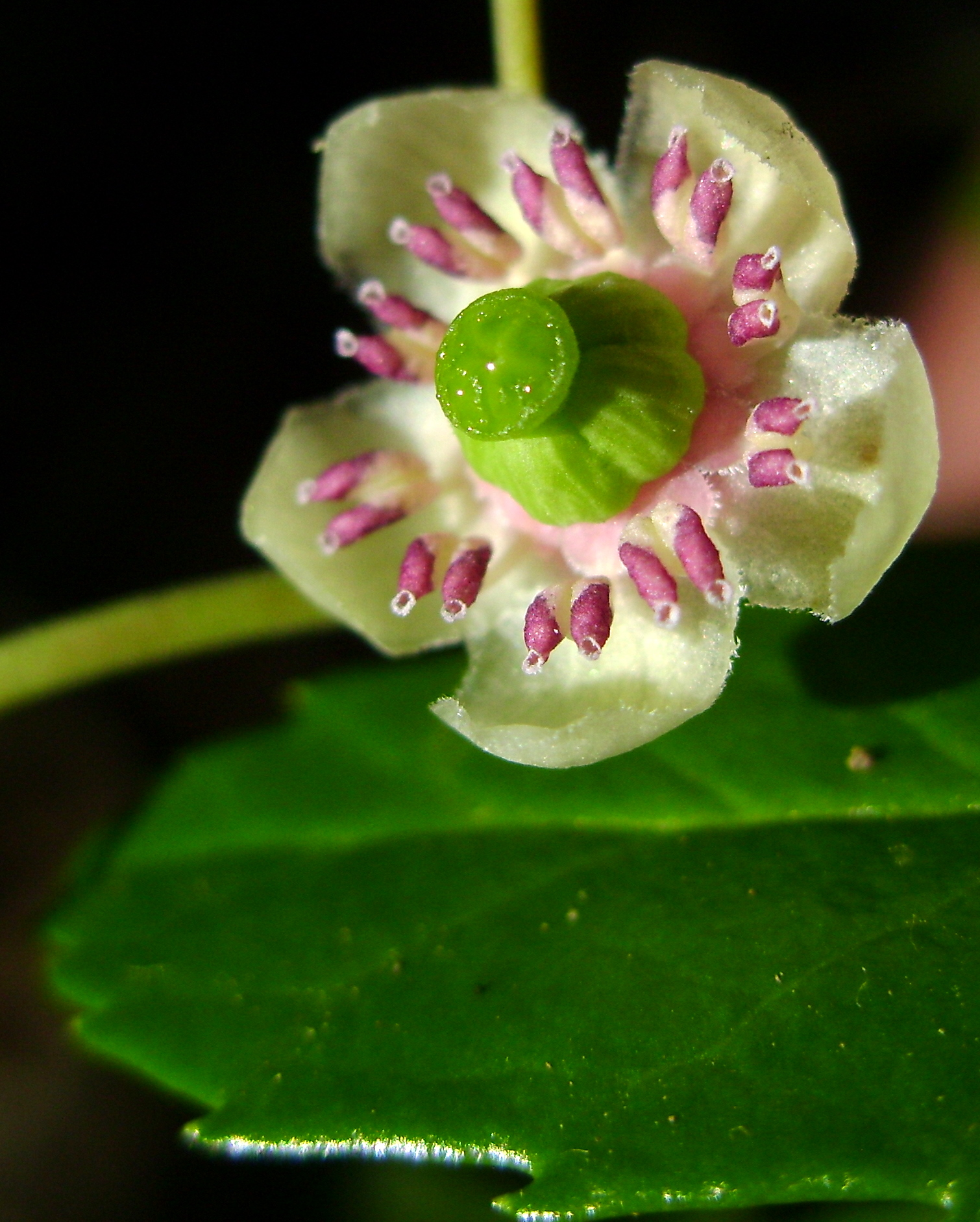 Close-up on a flower of Chimaphila umbellata (L.) Barton. The picture was taken in Lejeune, near the Squatec Lake, Temiscouata, Québec.